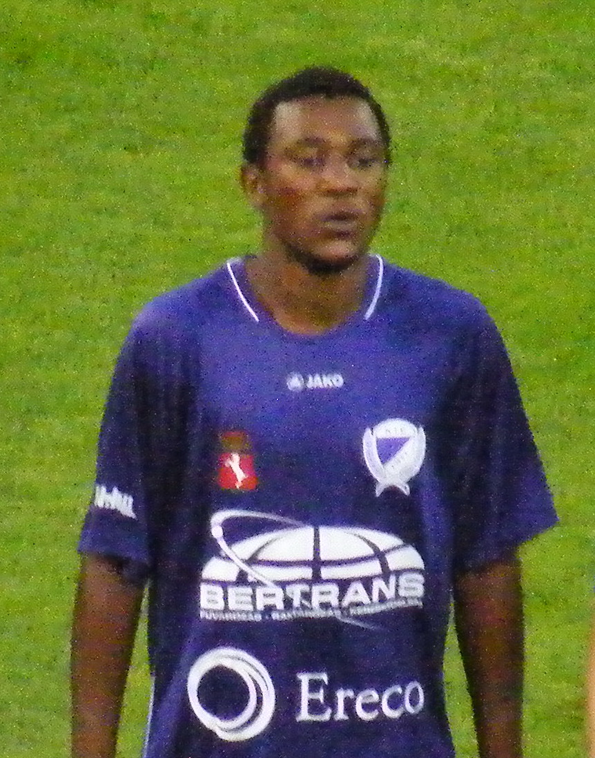 Francis Litsingi Congolese association football player.